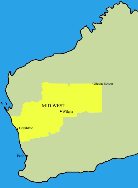 Mid West region of Western Australia, I made the image